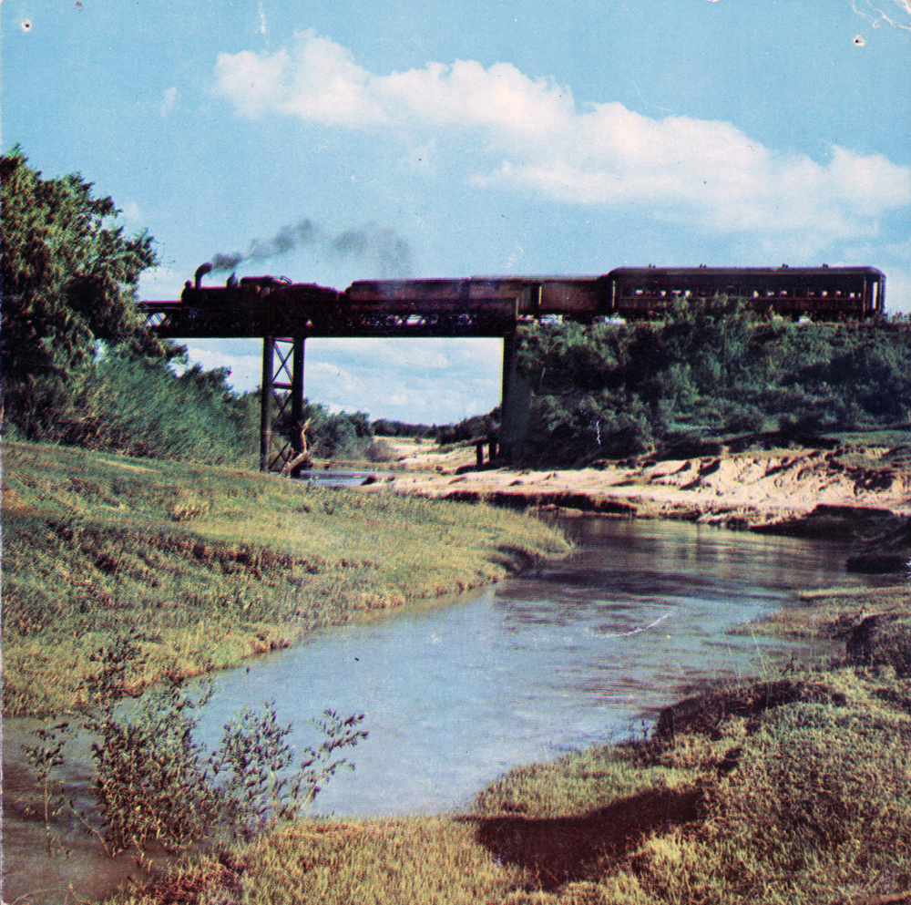 General Urquiza Railway steam locomotive crossing a bridge near Villaguay, Entre Rios Province c.1950.